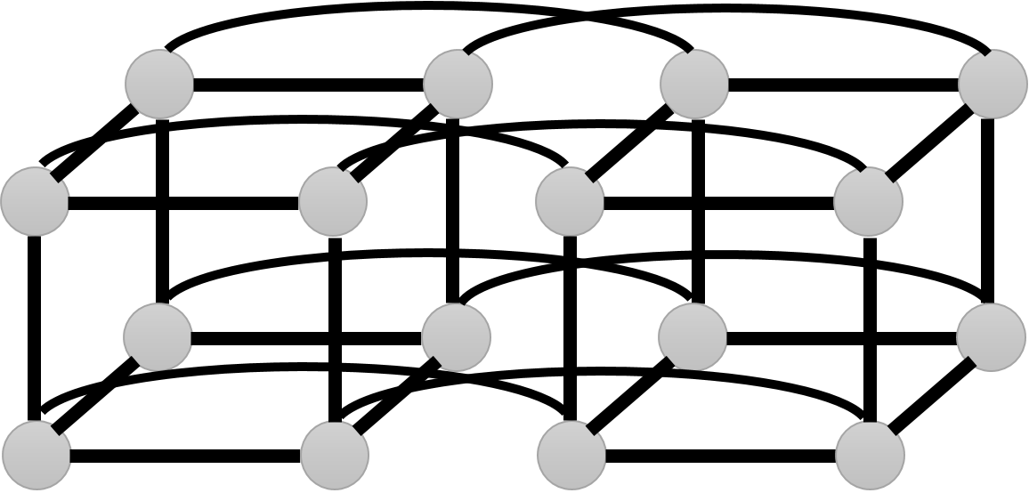 Leader election 4x4 hypercube graph